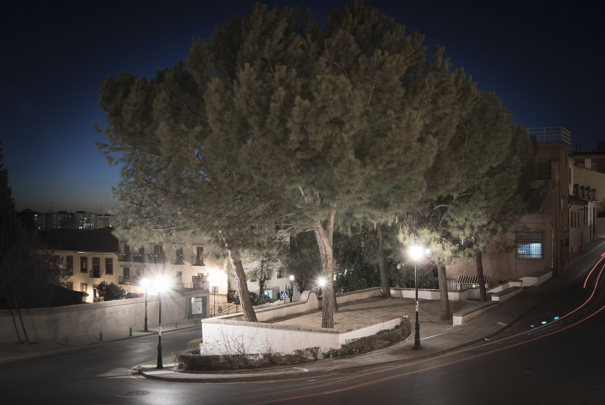 500px provided description: Joe Strummer Square [#trees ,#night ,#lights ,#square ,#granada ,#plaza ,#noche ,#luces ,#slope ,#citylights ,#cuesta ,#strummer ,#joe strummer ,#realejo ,#?rboles]